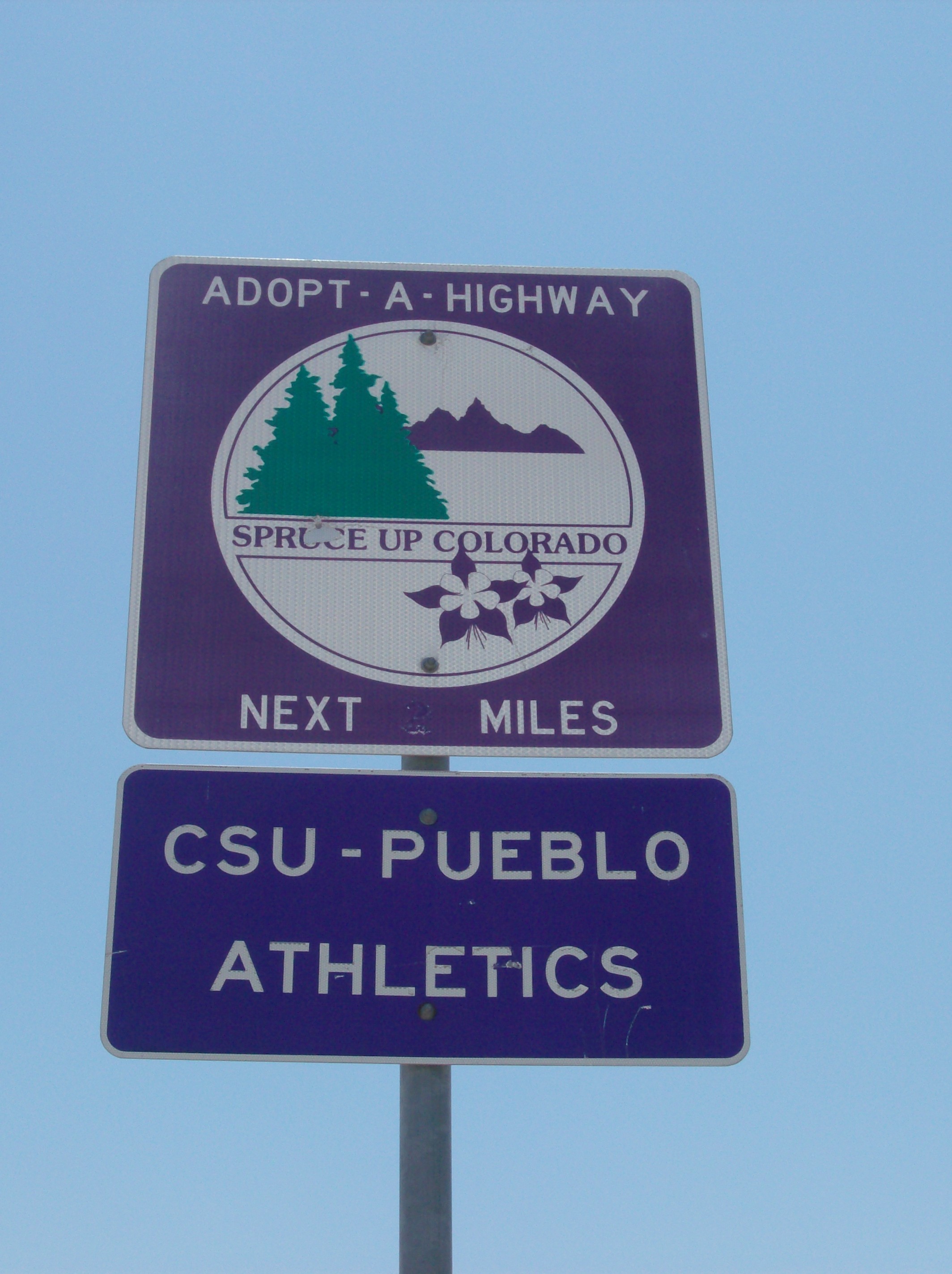 "Adopt-A-Highway, Spruce up Colorado, CSU Pueblo Athletics"